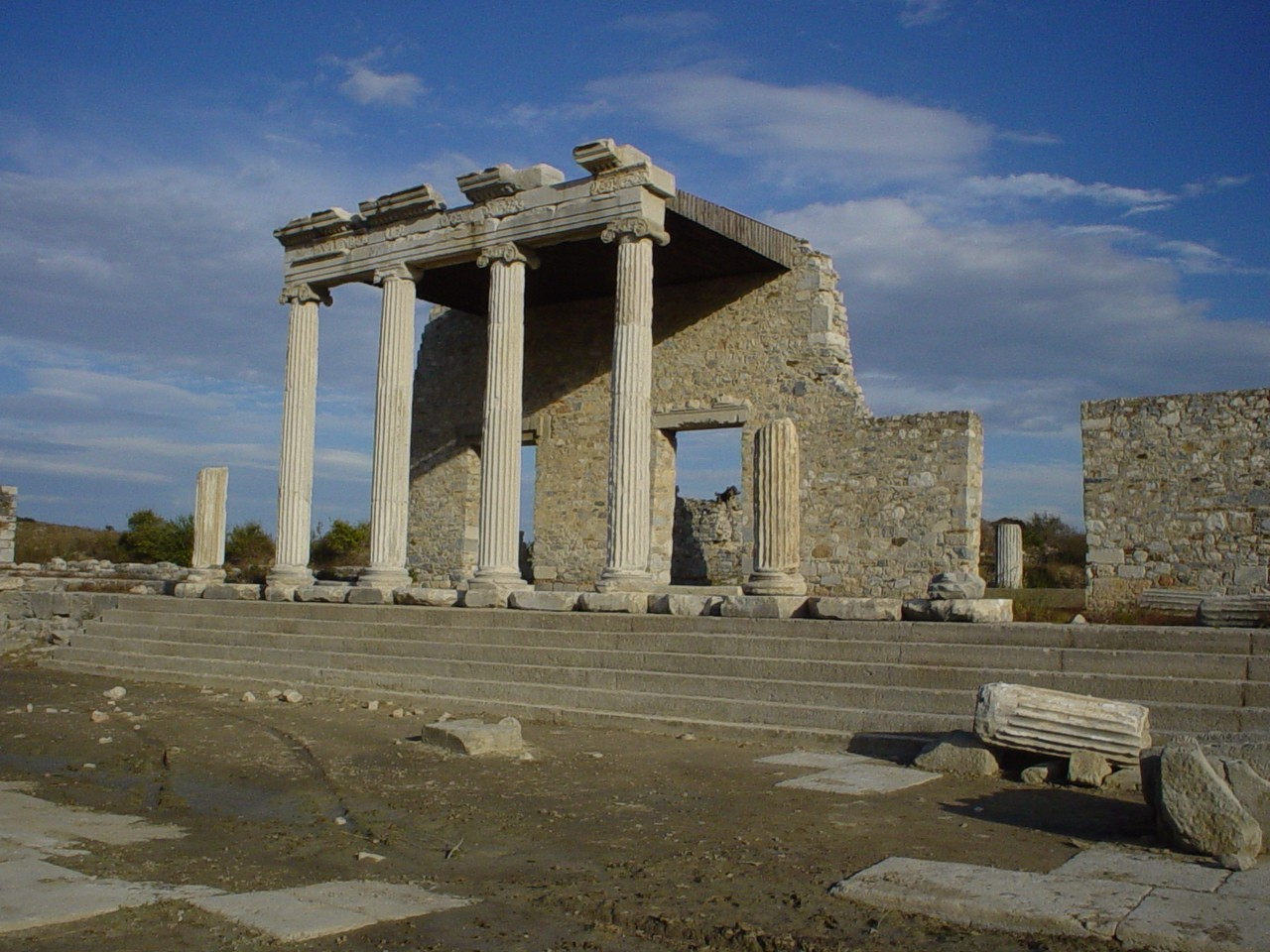 Taken on 14 November, 2004 by myself.